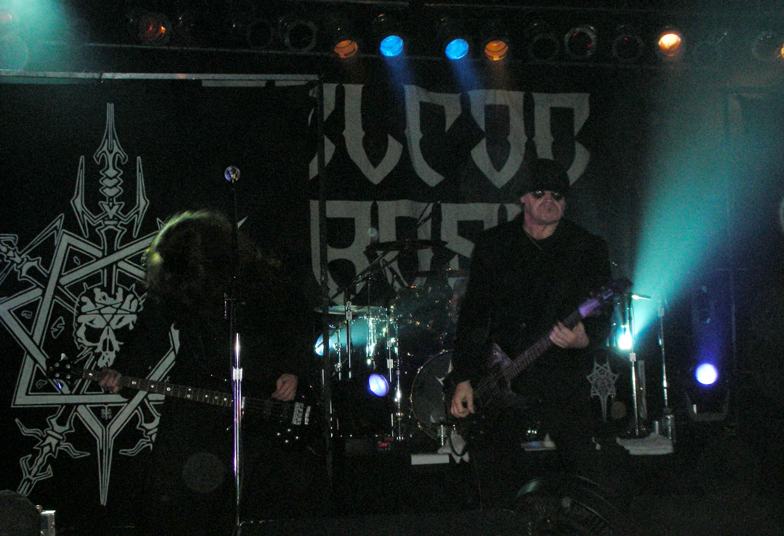 Celtic Frost live in 2006